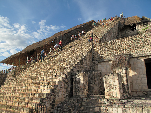 The Acropolis, largest structure at Ek' Balam. Акрополь, самое большое сооружение в Эк-Балам (Юкатан, Мексика), расположенное в северной части комплекса.